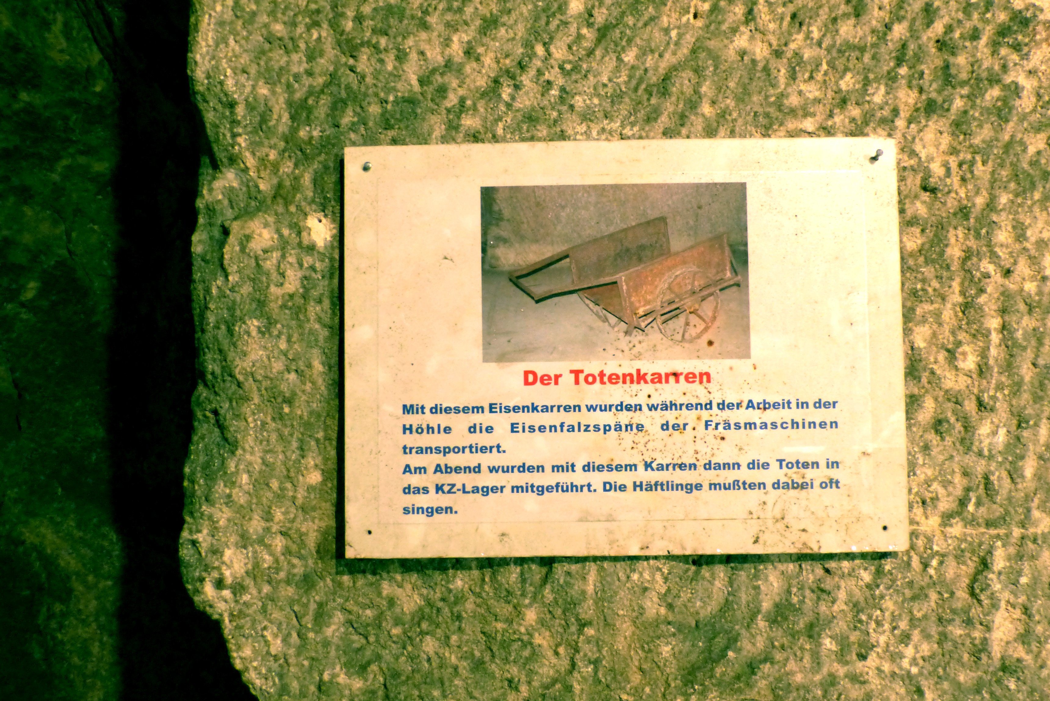 Römersteinbruch Aflenz an der Sulm - Aus der Zeit als Konzentrationslager